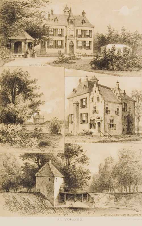 Castle 'Bramel' at Vorden